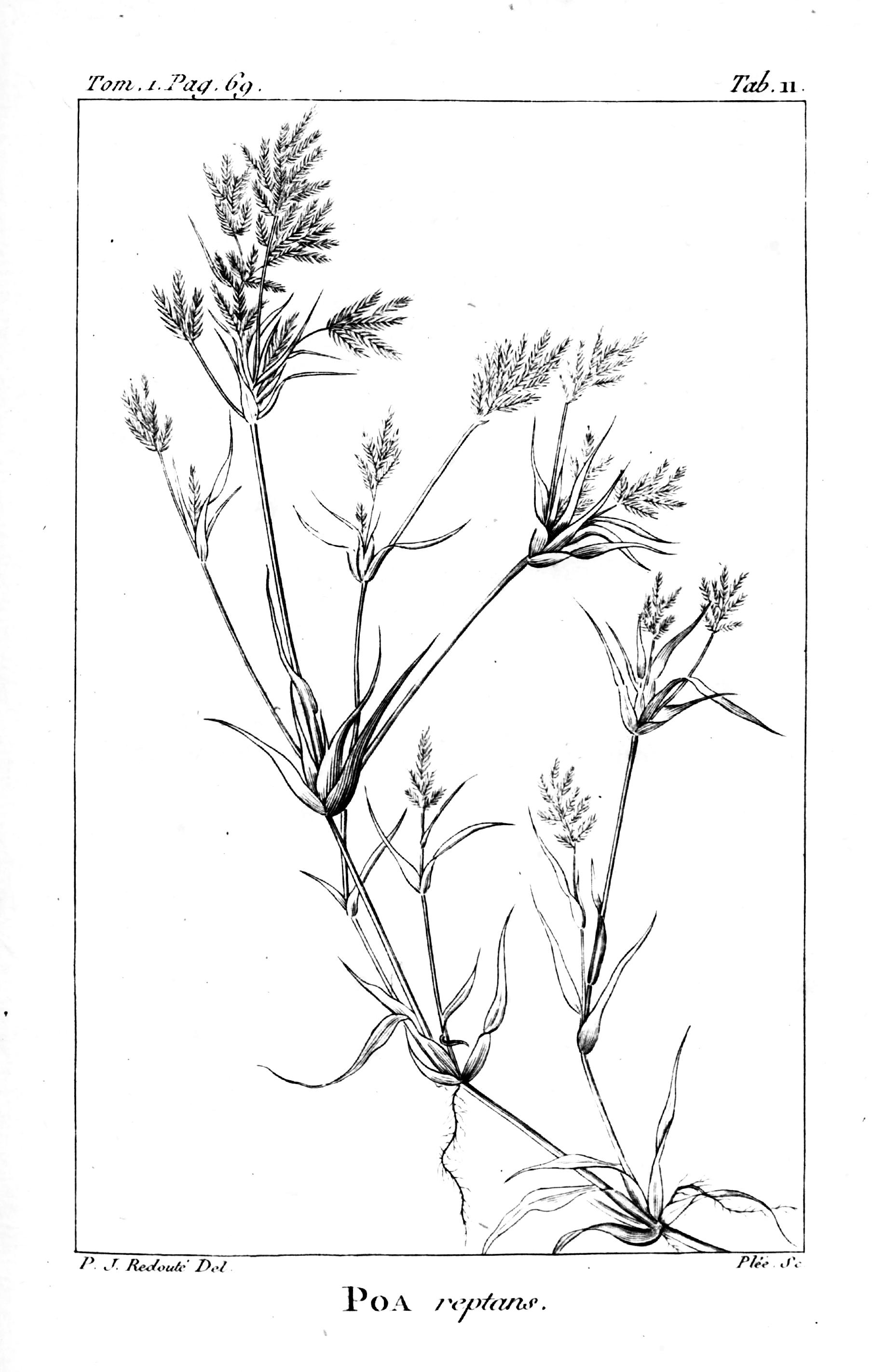 Illustration of Eragrostis reptans from Flora boreali-americana